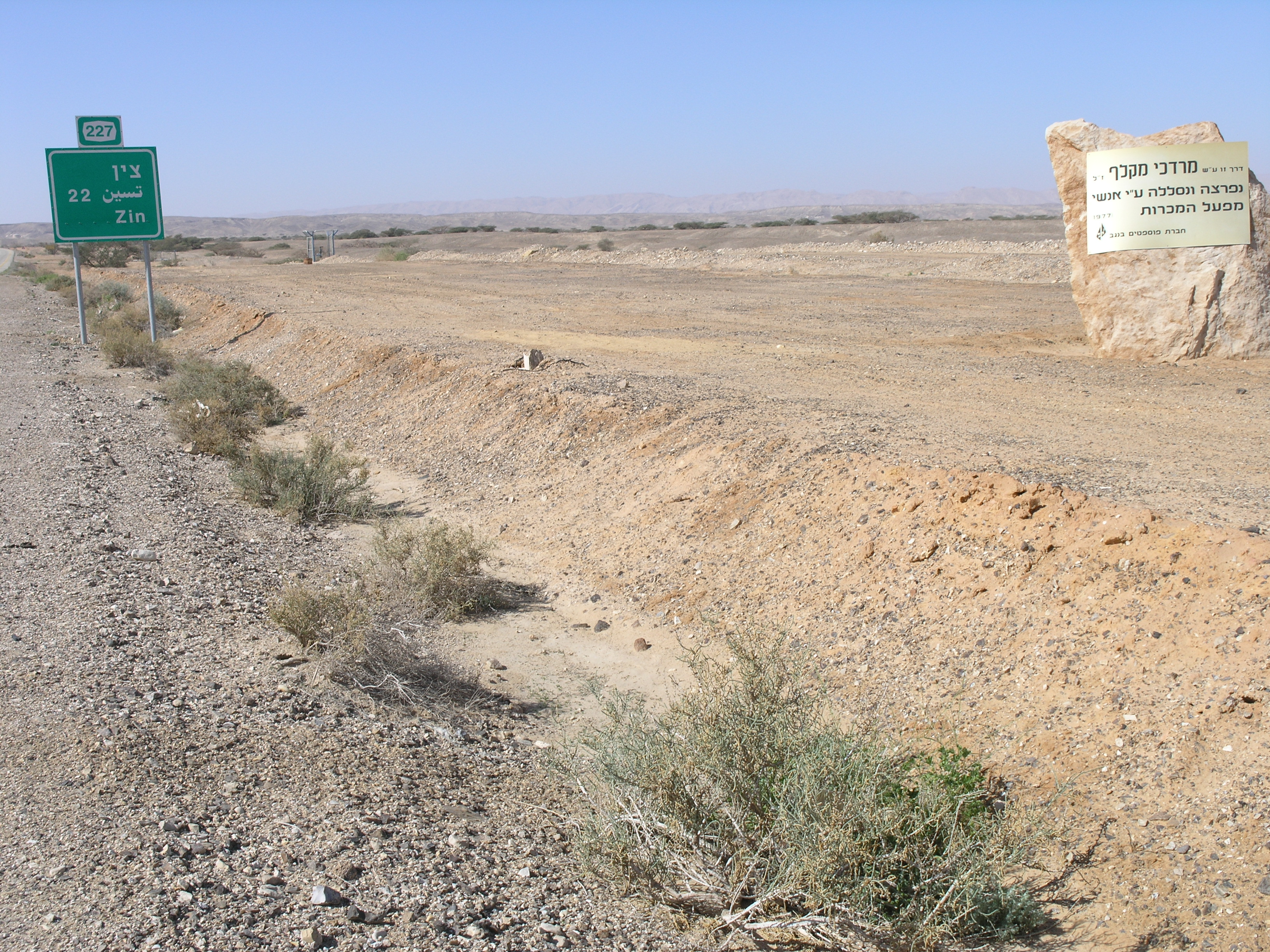 Route 227_ISRAEL - Mordechai Maklef